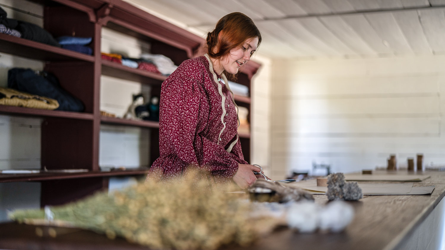 1860 dressmaking interpreter at Historic Westville